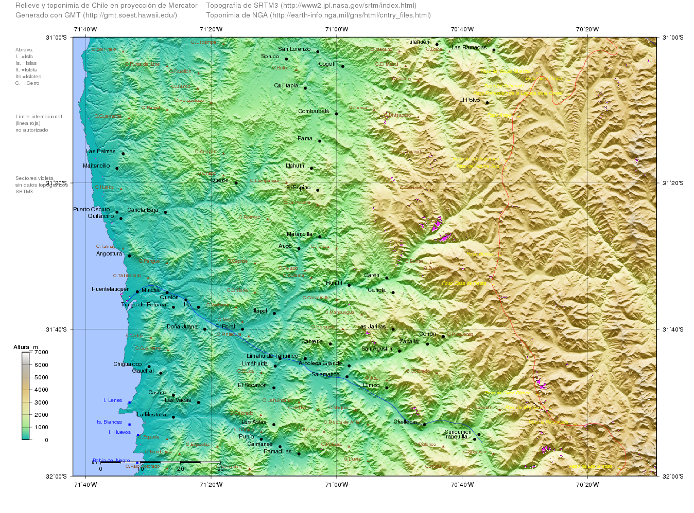 Map of Chile generated with GMT ( topography from SRTM ftp://e0srp01u.ecs.nasa.gov/srtm/version2/SRTM3/ and toponymy from